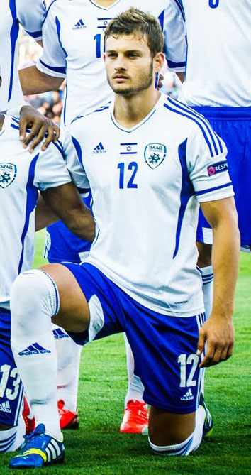 . Edi Gottlieb, UEFA U21s Football championships in Israel between Israel & Norway Photo By David Katz